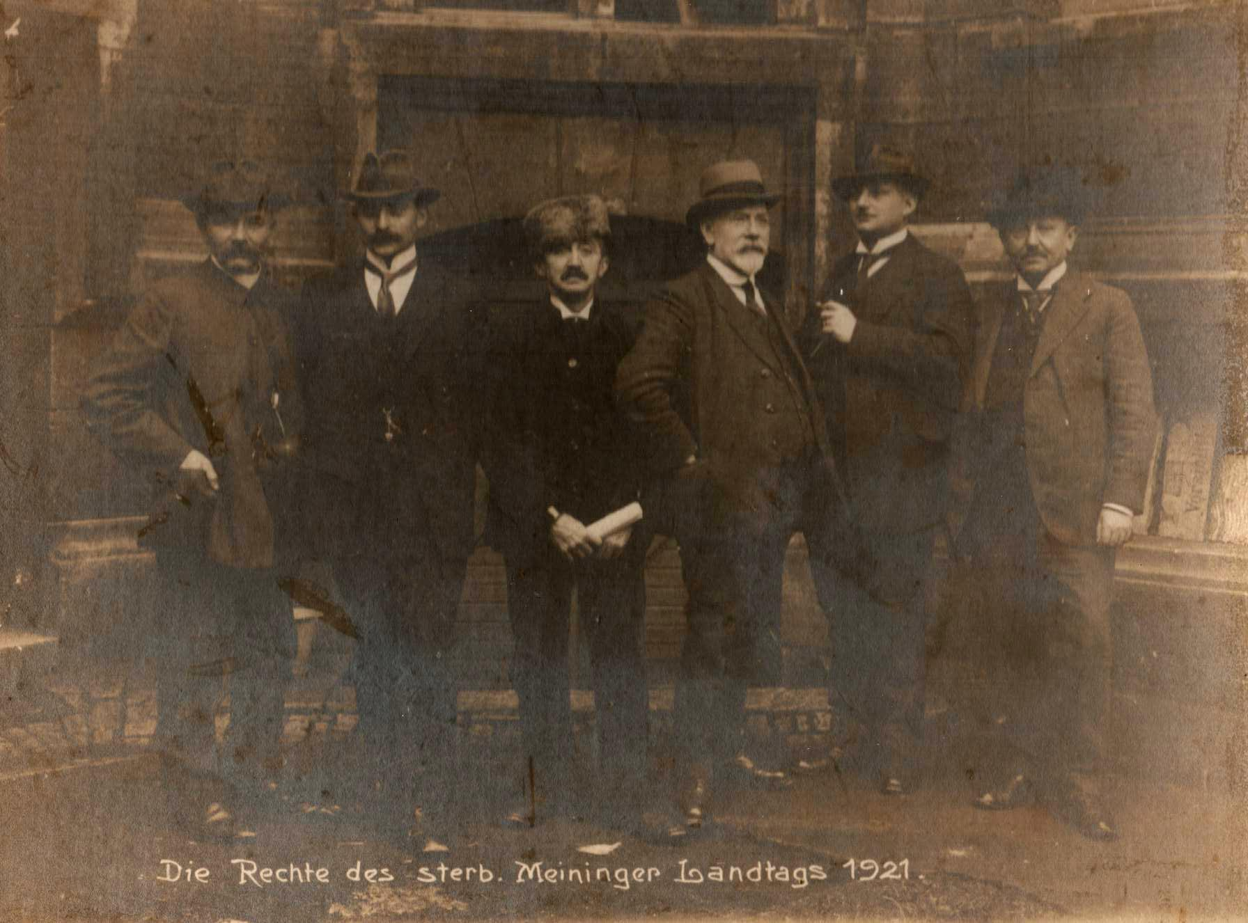 This picture shows the members of the parliament (Landtag) of Sachsen-Meiningen in the year 1921 belonging to the Meininger Bauernverein